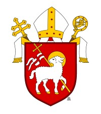 Coat of arms of Trnava diocese